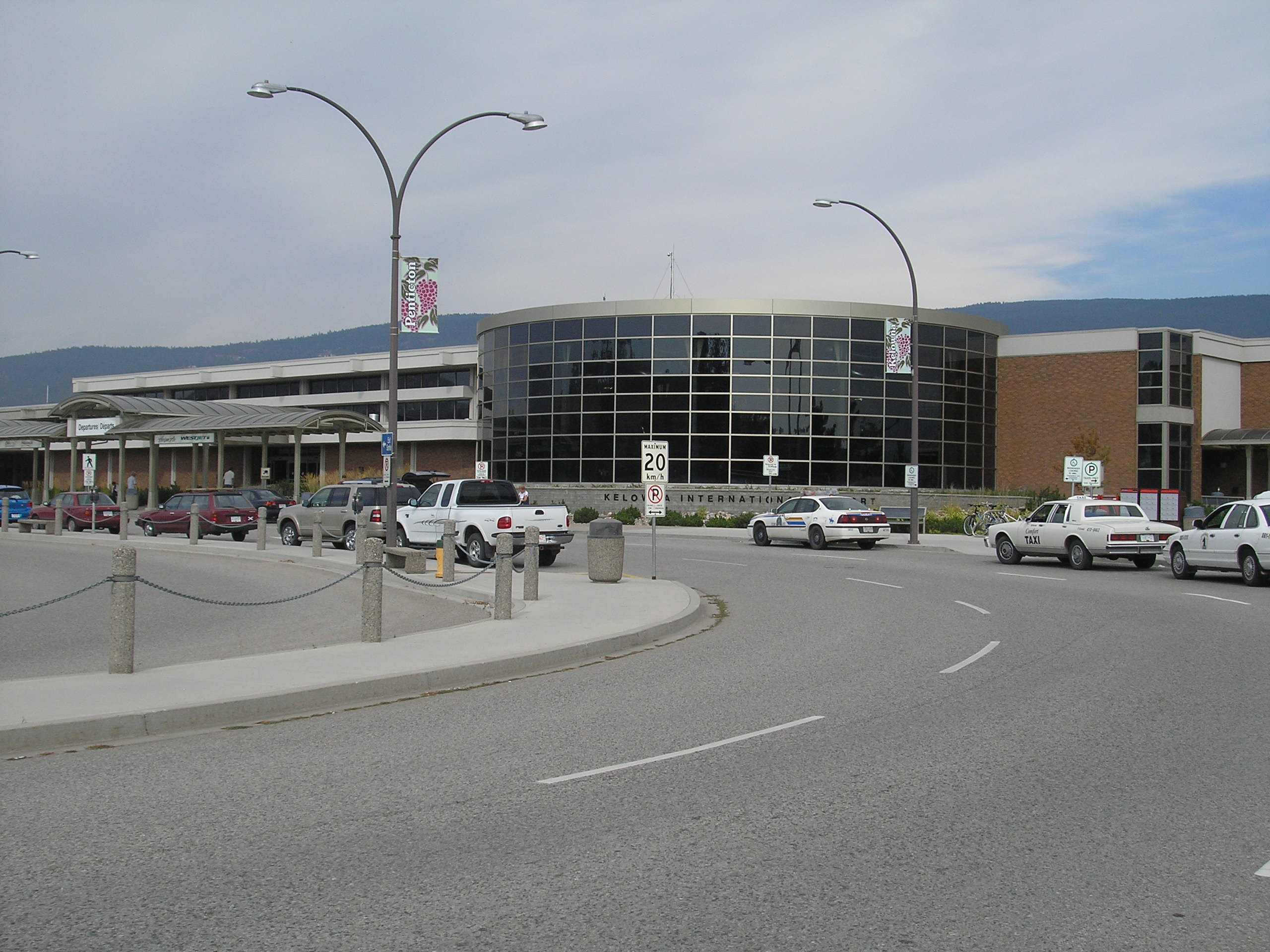 Photo of Kelowna International Airport.